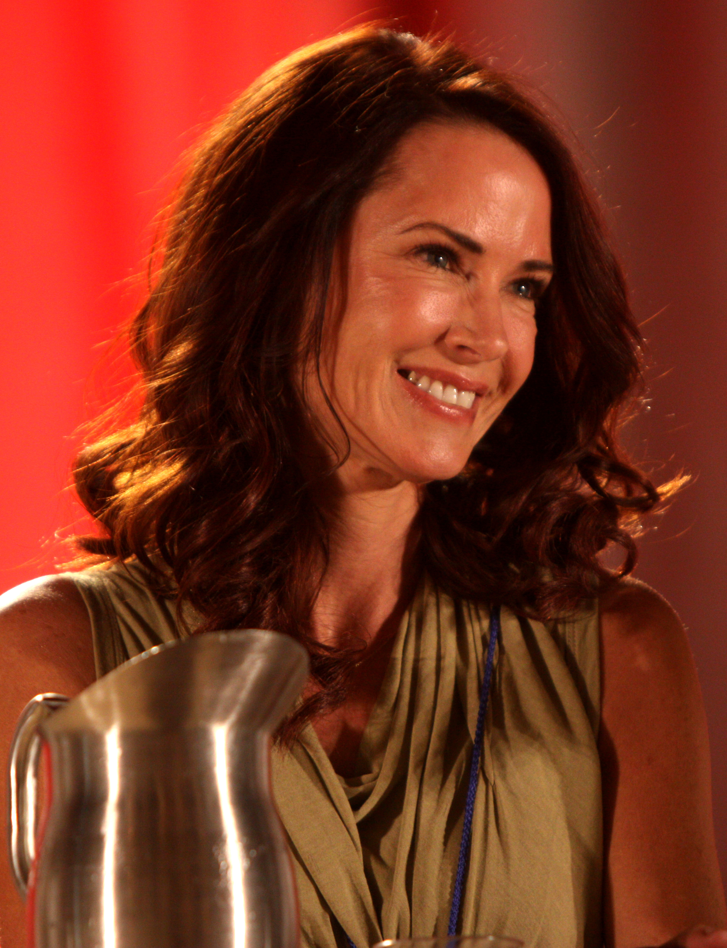 Debrah Farentino at the 2012 Phoenix Comicon in Phoenix, Arizona.